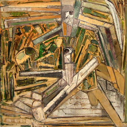 André Queffurus work of art